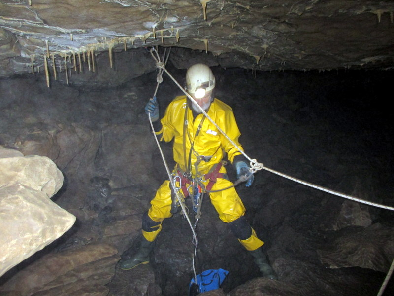 A caver preparing to descend a 24 metre deep shaft in the One-armed Bandit Series of Aquamole Pot, West Kingsdale, North Yorkshire, England.